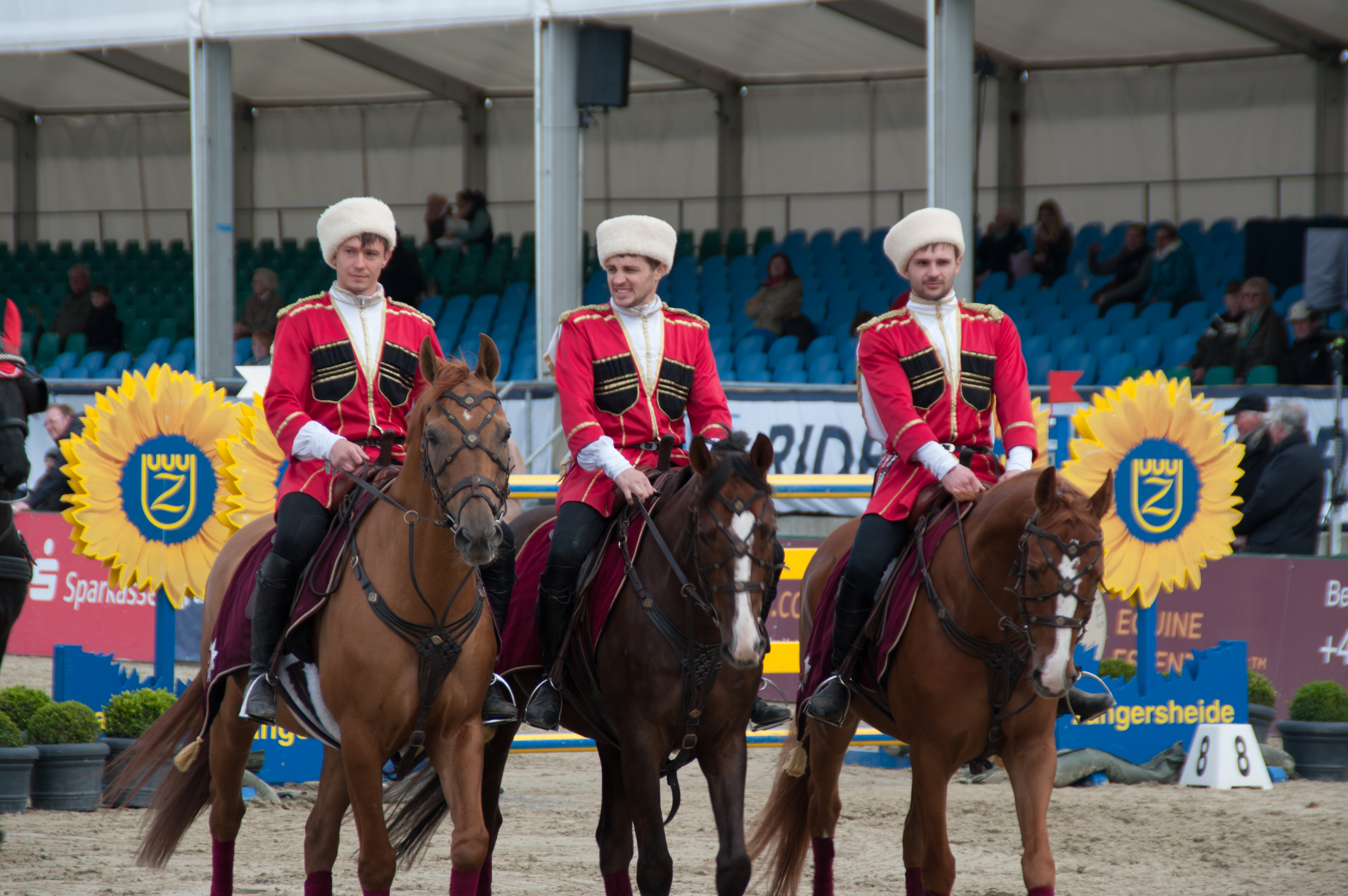 Horses & Dreams 2013